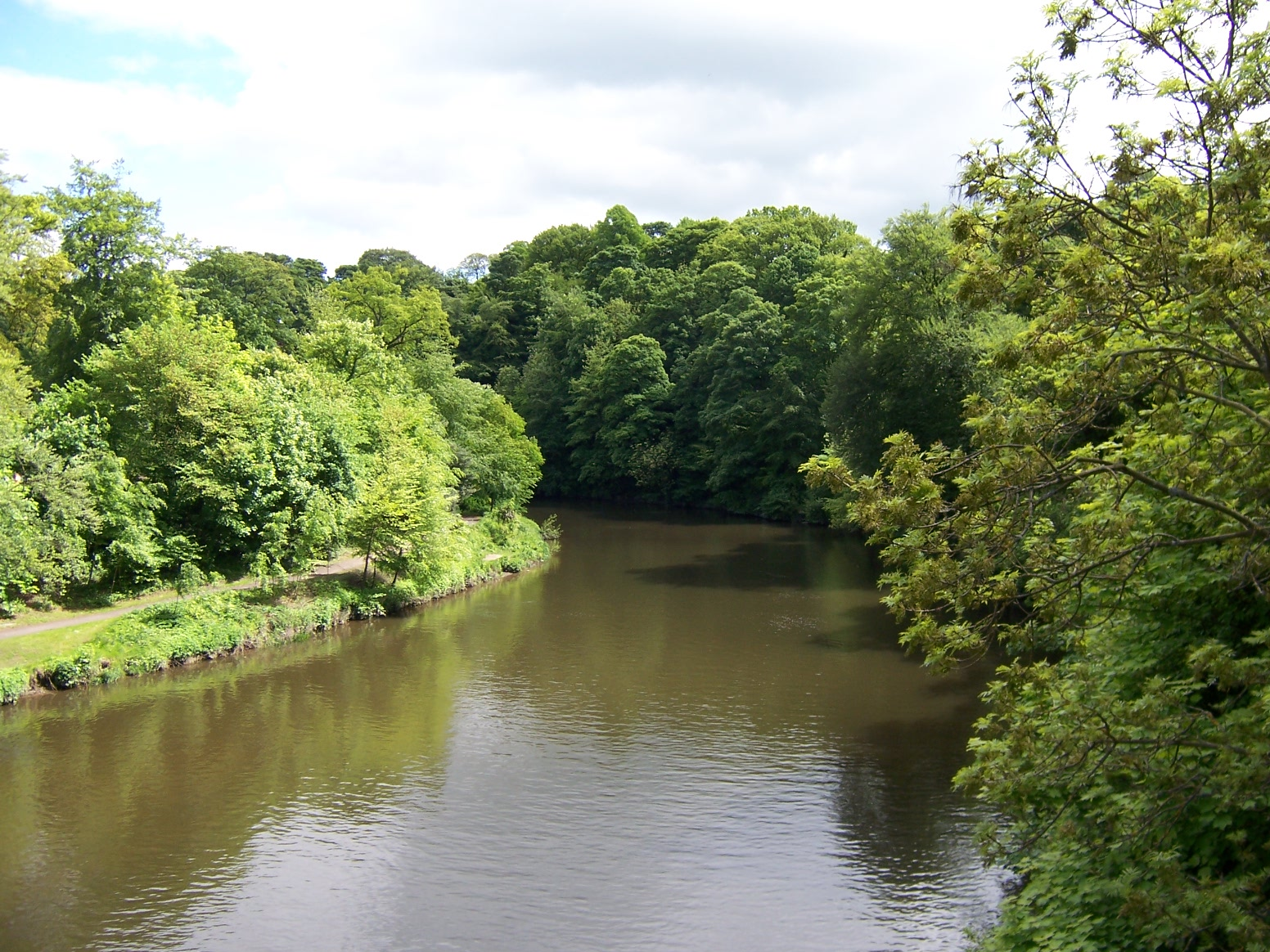 River Wear in Durham, England